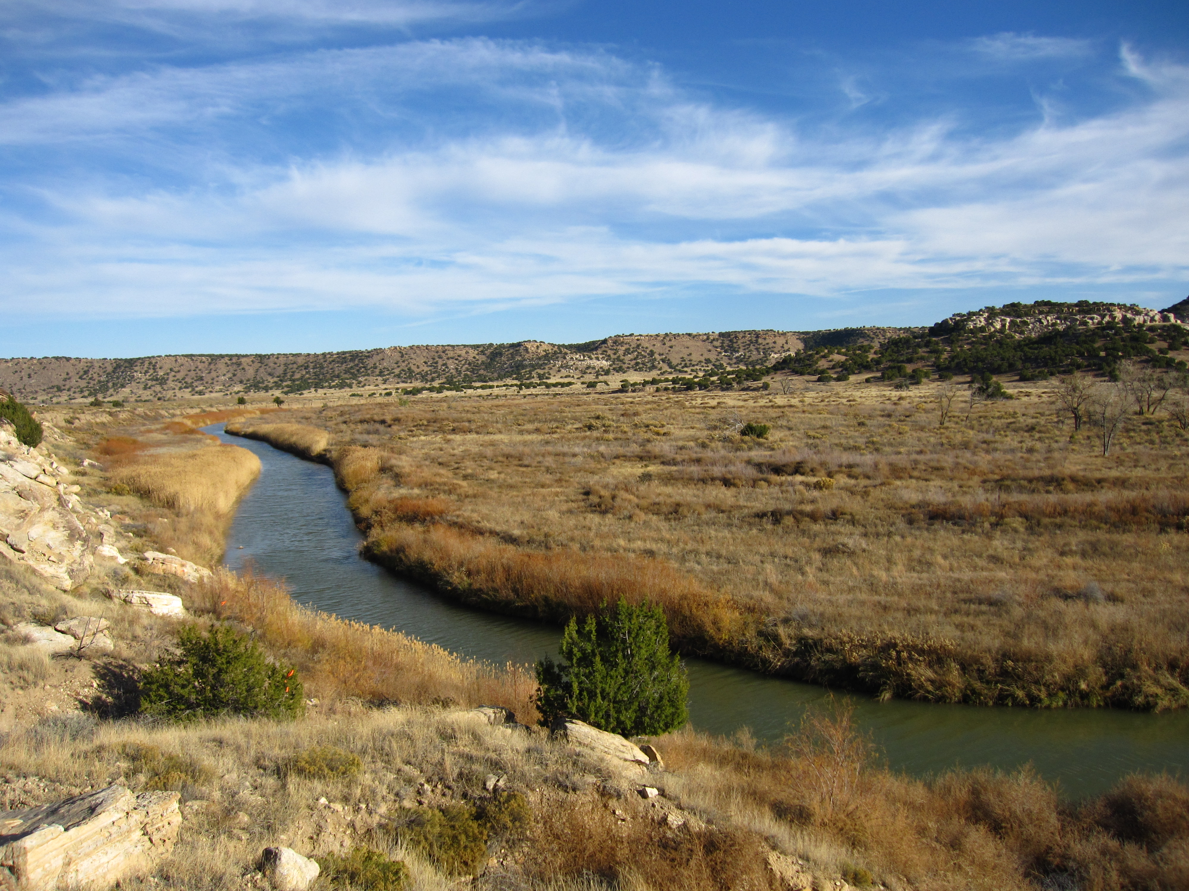 A photograph of Picketwire Canyon in the Comanche National Grassland